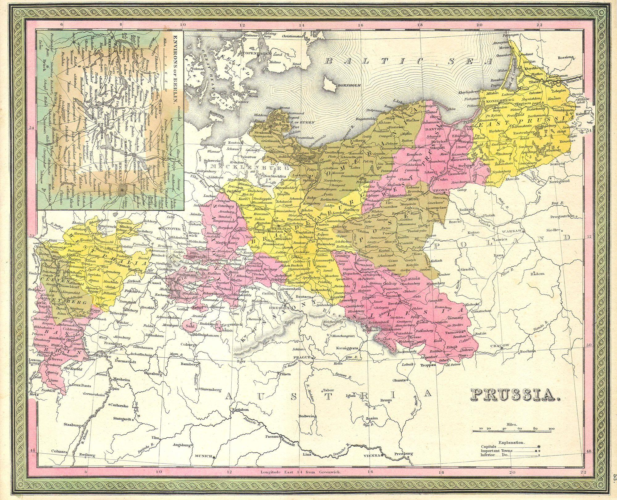 This hand colored map is a copper plate engraving, dating to 1850 by the legendary American mapmaker S.A. Mitchell, the elder. It represents Prussia. This map features a detailed inset map of Berlin. Most major national and local political distinctions are outlined and defined by vibrant color: reds, greens, yellows & browns. This map is dated and copyrighted, 1850.